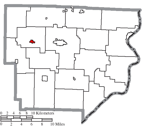 Map of the municipal and township boundaries of Monroe County, Ohio, United States, as of the 2000 census, with the location of the village of Lewisville highlighted. Township borders are shown only in unincorporated areas in order to differentiate incorporated and unincorporated areas more clearly.